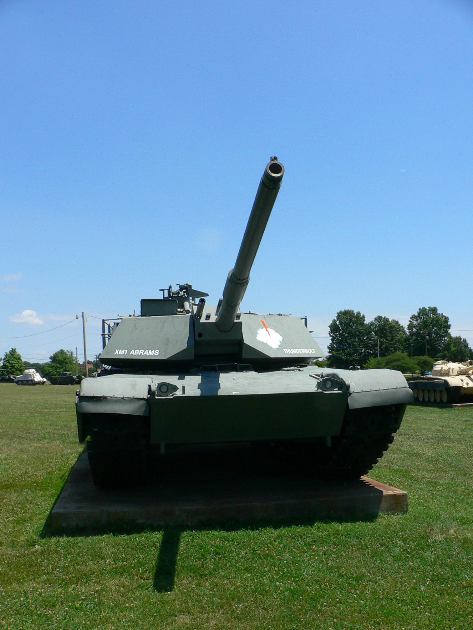 Picture taken by myself, Mark Pellegrini, at the United States Army Ordnance Museum (Aberdeen Proving Ground, MD) on June 12, 2007.